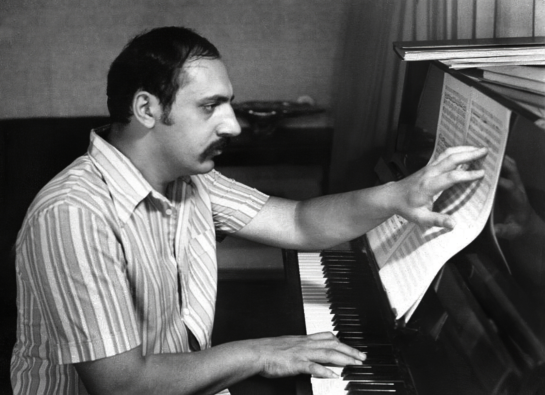 Eldar Mansurov playing piano in 1982.